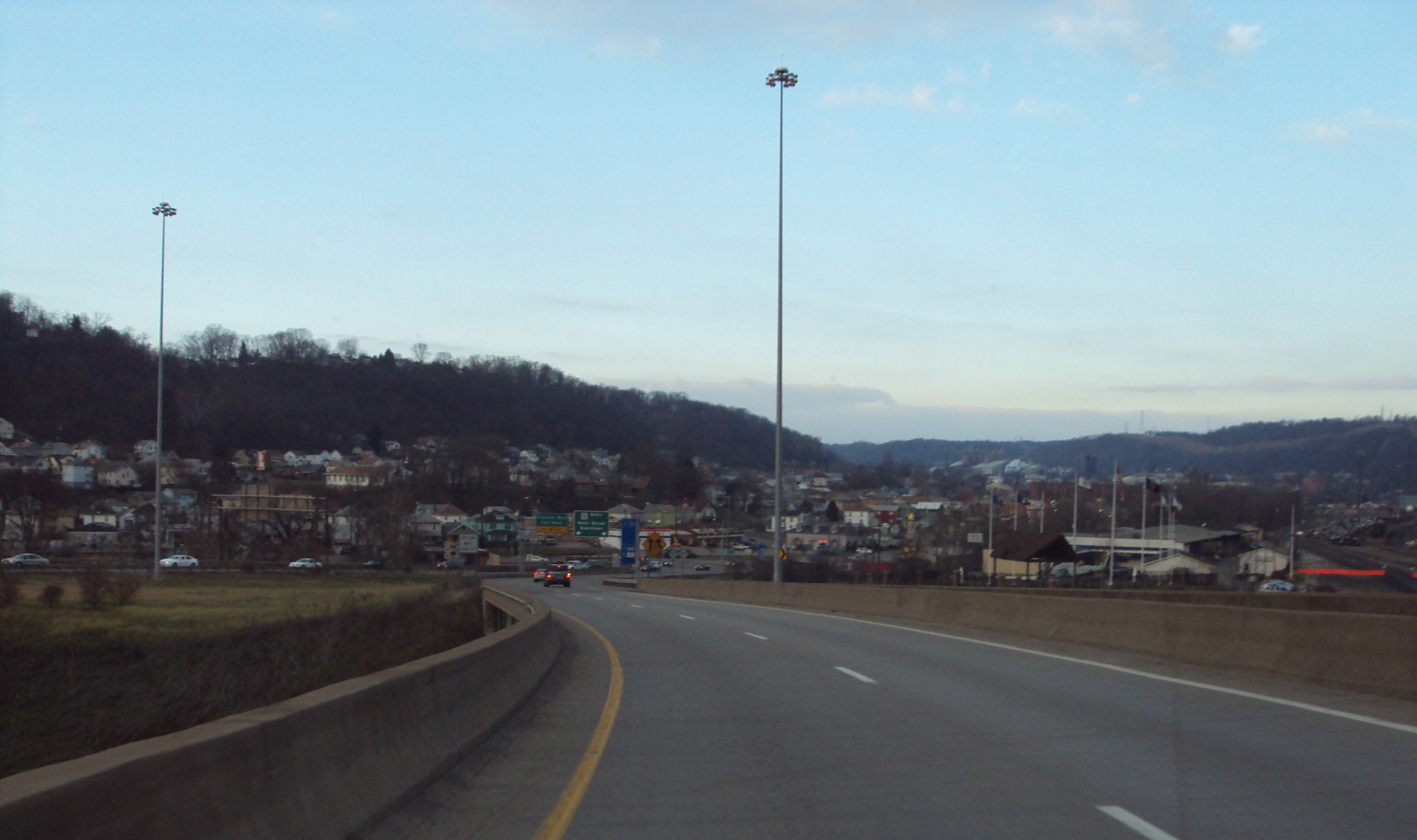 Entry into Downtown Weirton from US-22, West Virginia, United States.